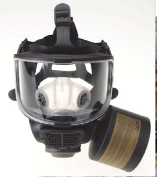 CBRN Air-Purifying Respirator